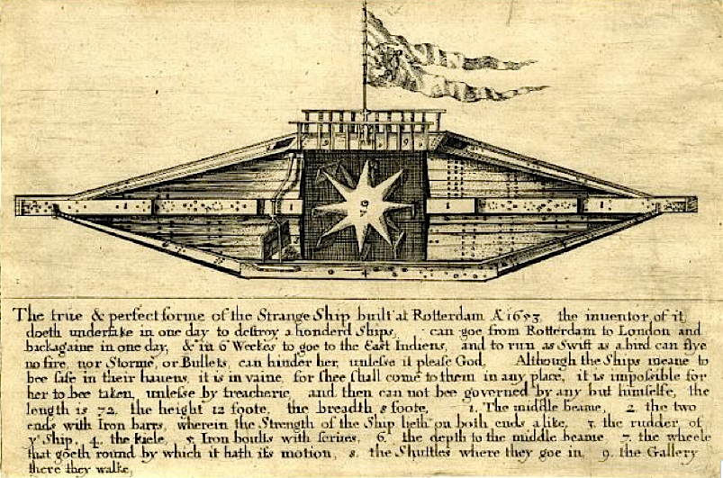 The true and perfect forme of the Strange Ship built at Rotterdam Anno 1653, etching unsigned attributed to Hollar, after Frederik de Witt : the original print is in the Maritime Museum in Rotterdam, entitled Perfecte Afbeeldinge: van 't Wonderlycke Schip, gemaakt tot Rotterdam. 1653. Dim. : 149 mm x 227 mm. It is unclear if the ship was built or not by the Frenchman De Son.